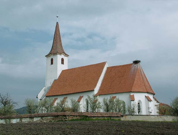 ancient church in Mugeni